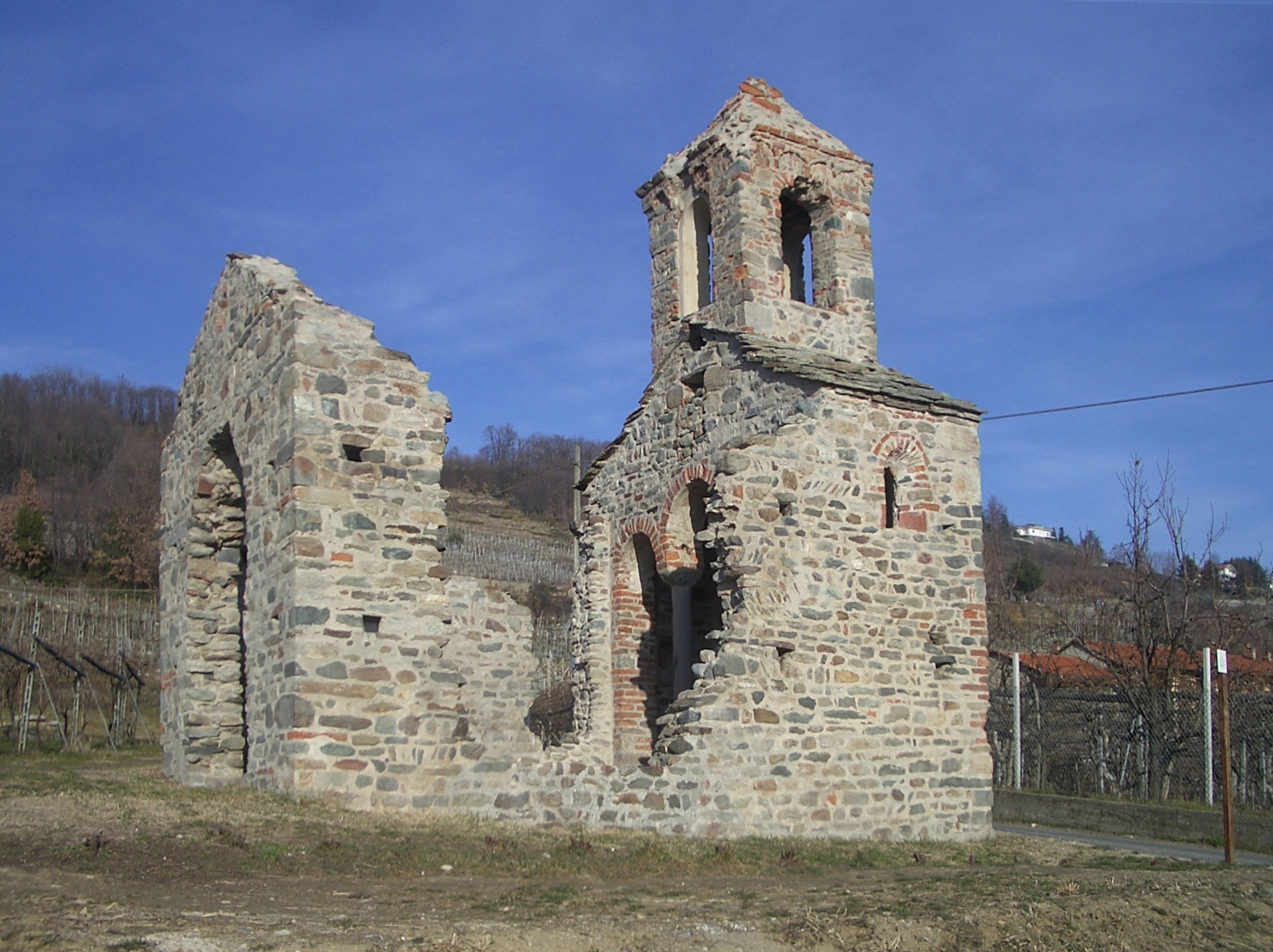 Romanesque church, IX century (popularly known as Gesion), Piverone, Torino, Italy